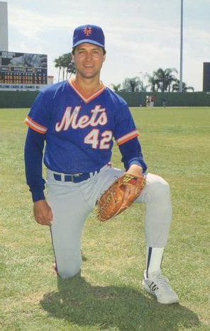 Professional baseball player Roger McDowell